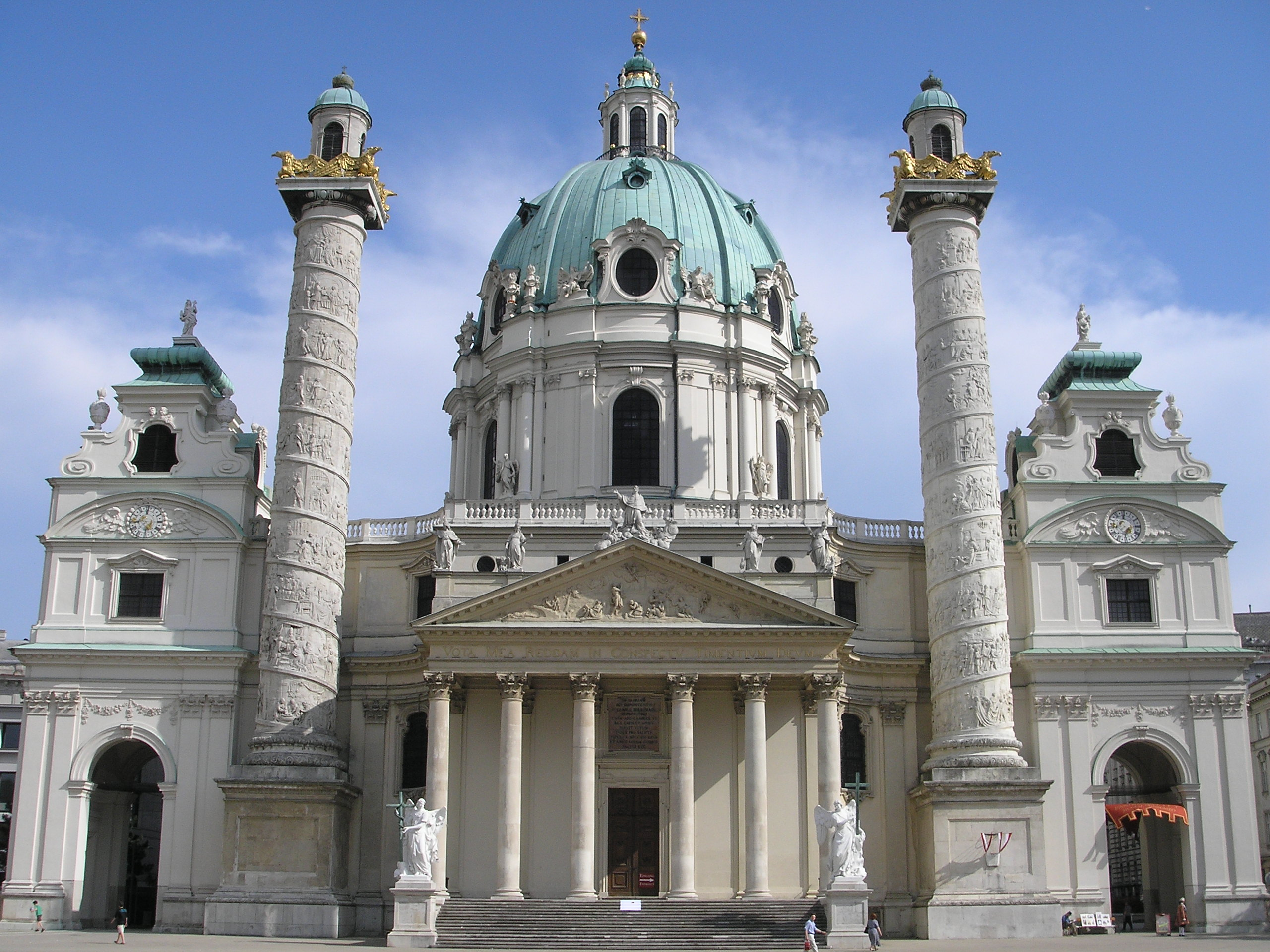 Austria, Vienna, St. Charles's Church